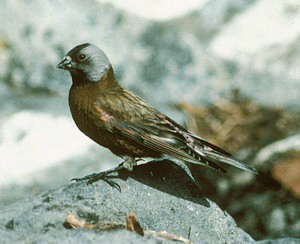 Grey-crowned Rosy-finch